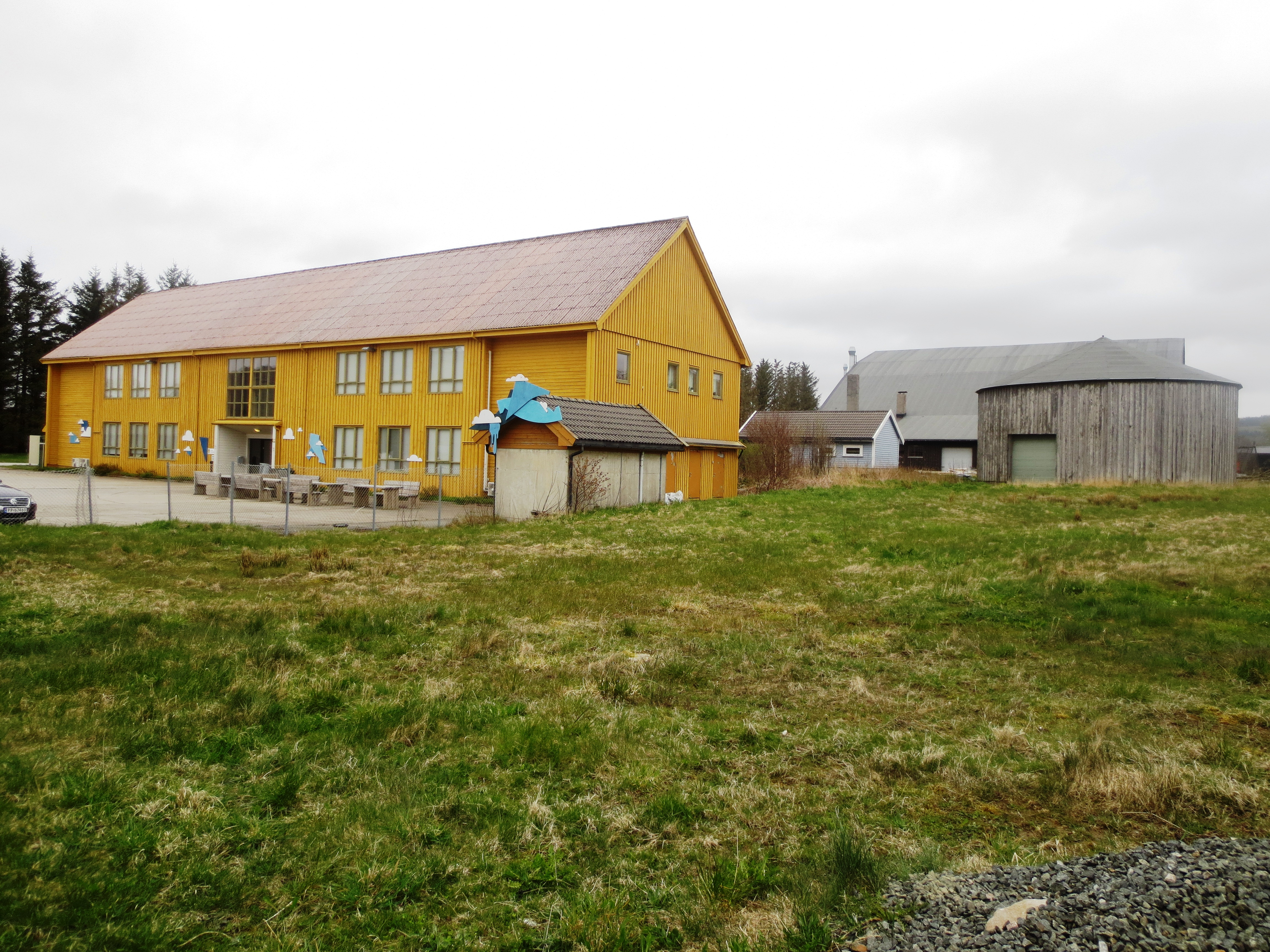 The former Lista flystasjon (Lista Air Force Station) in the municipality of Farsund, Norway